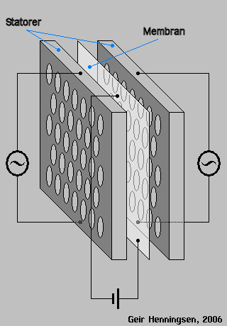 Electrostatic loudspeaker cross-section